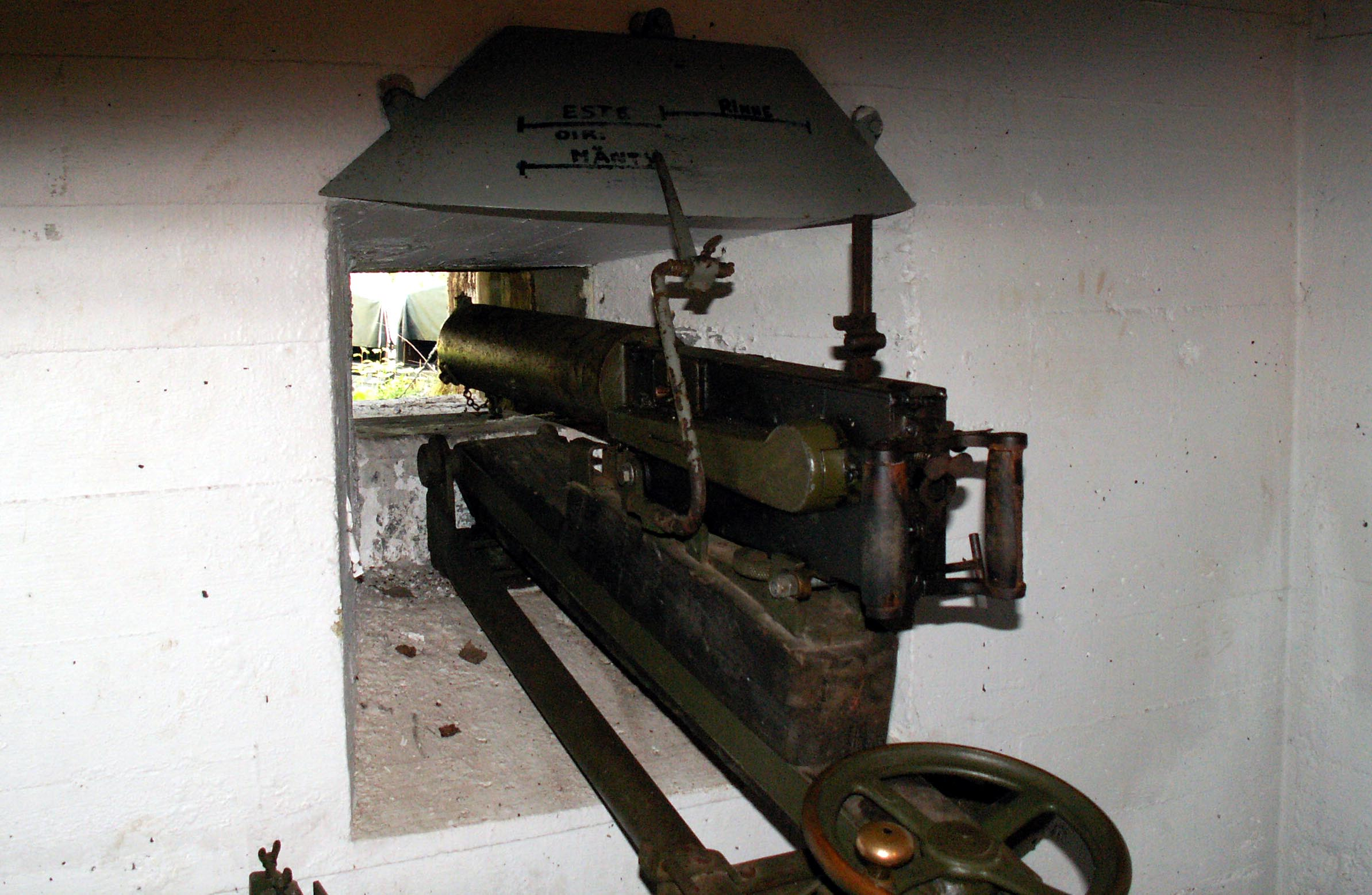 A Maxim machine gun in a bunker, part of the Finnish Salpa Line. Located at the Salpa museum at Miehikkälä, Finland.